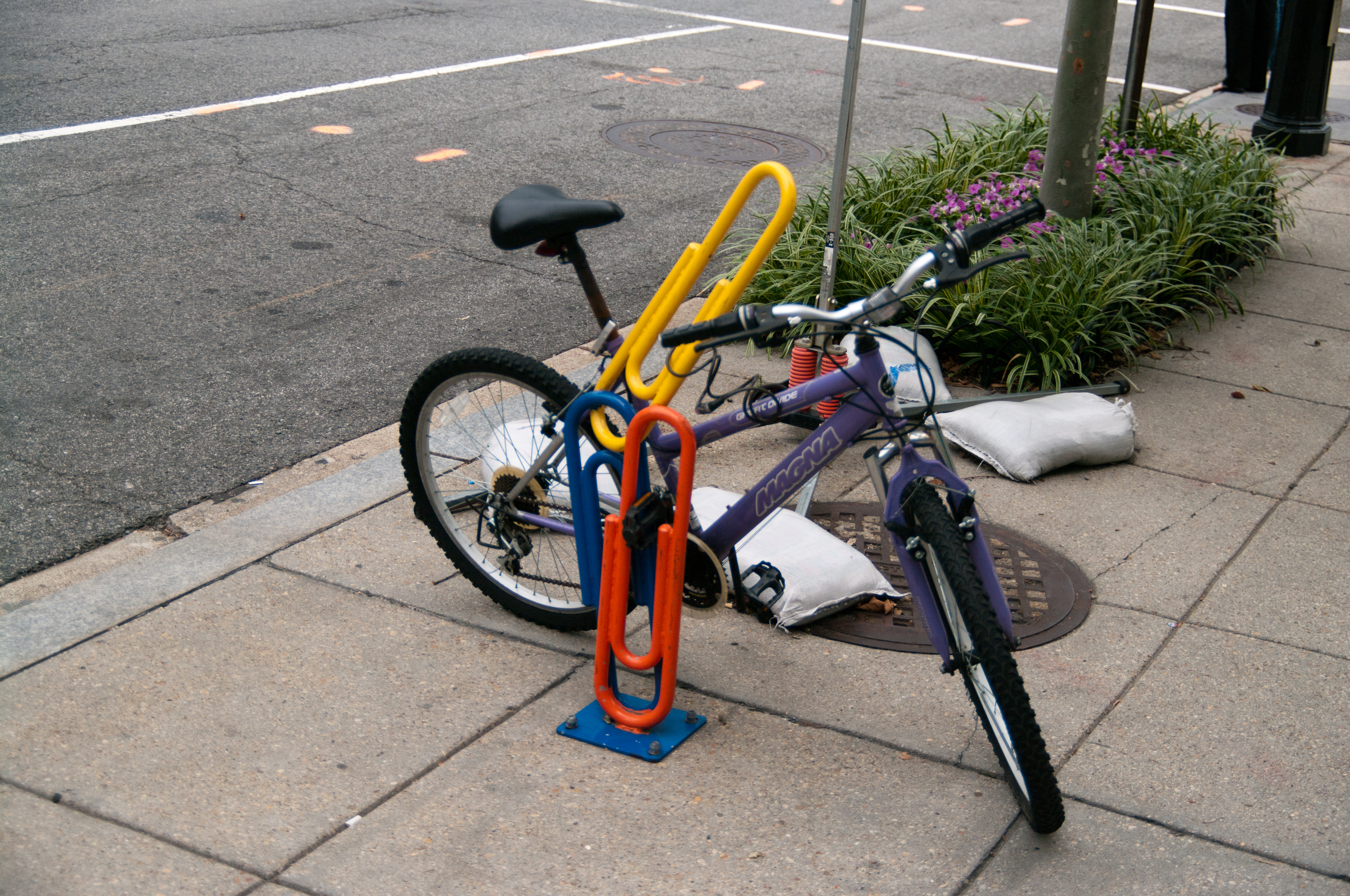 Bike in Washington DC between Dupont Circle and GWU